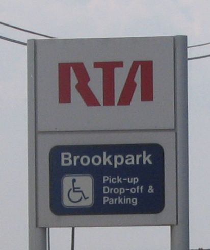 Sign at the entrance to Brookpark Station on the Red Line of Cleveland RTA Rapid Transit